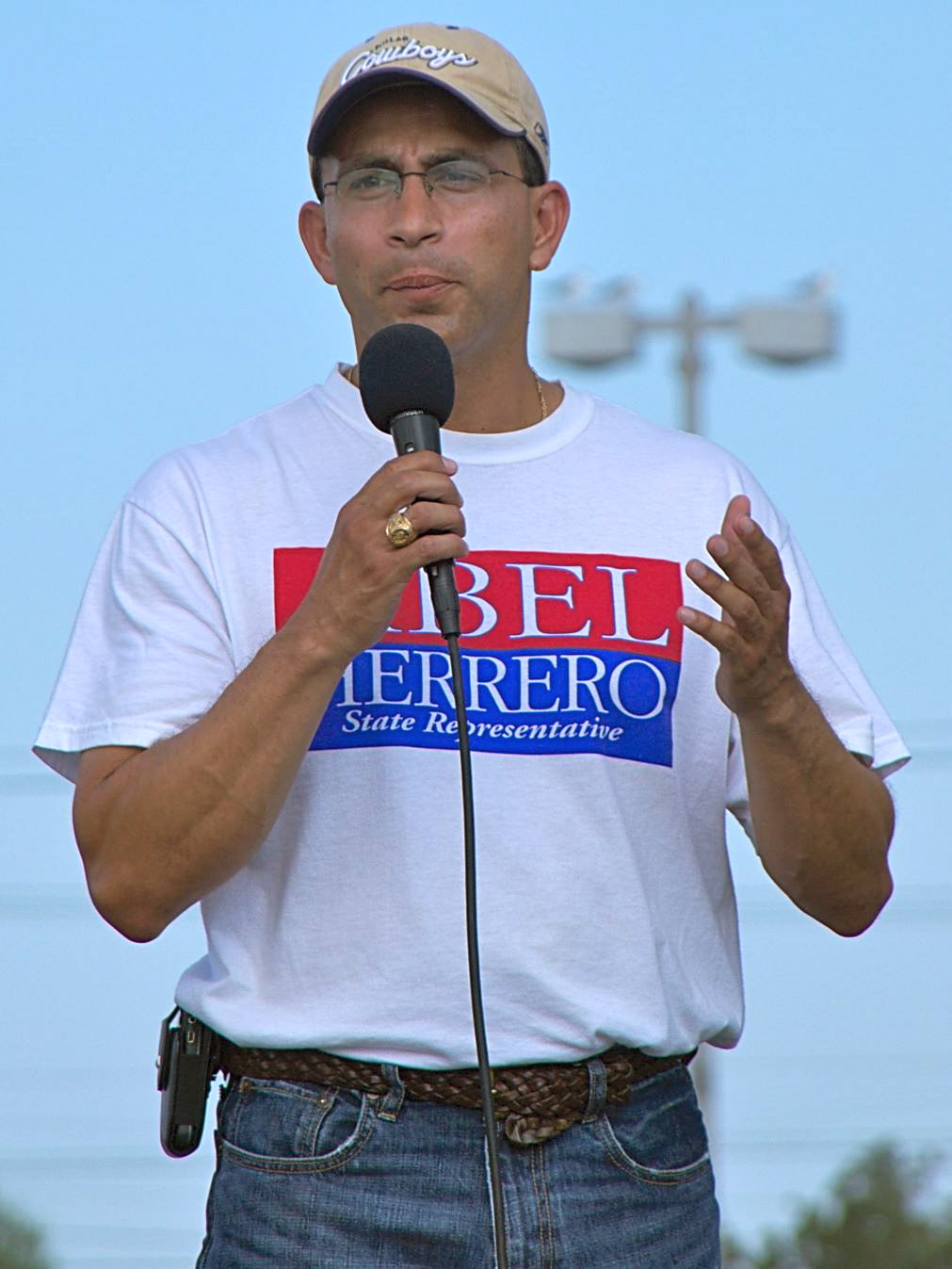 Texas State Rep. Abel Herrero.